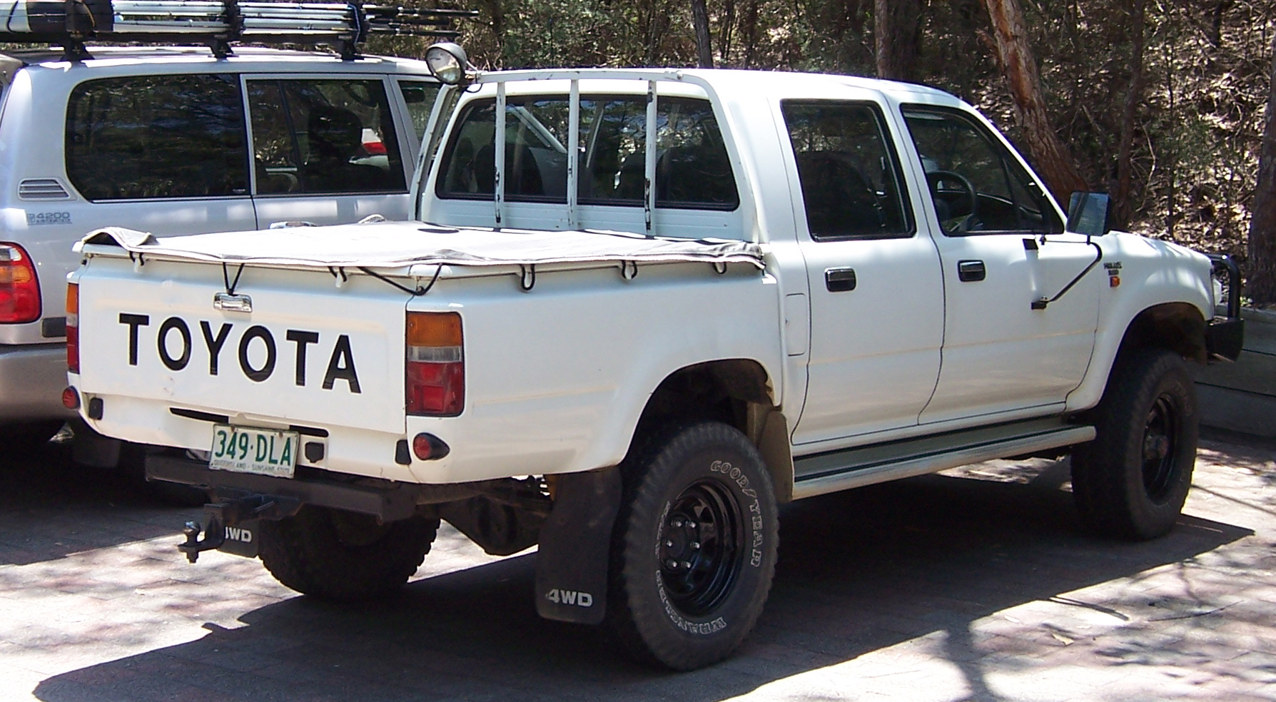 1996 Toyota HiLux (LN106R) DX 4-door utility. Photographed on Fraser Island, Queensland, Australia. Vehicle registration enquiry results Jurisdiction Queensland Registration 349DLA Chassis code JT733LNA609045477 Year of manufacture 1996